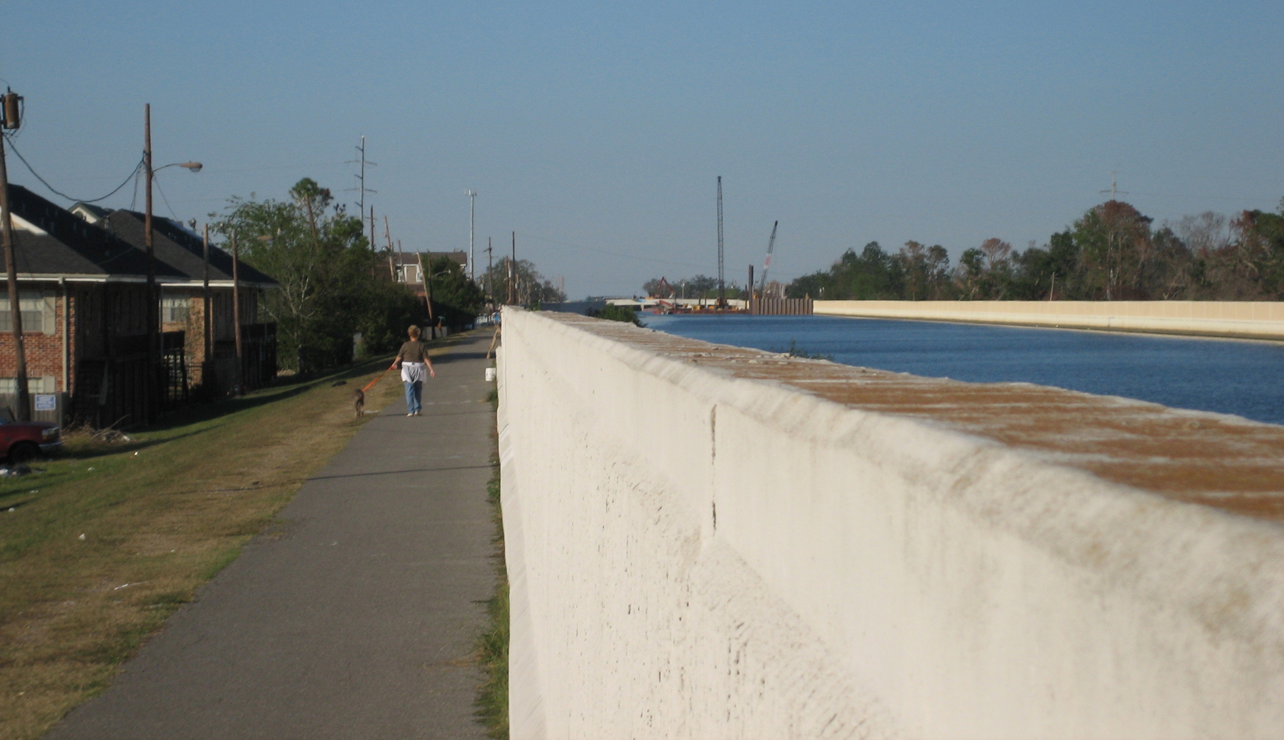 New Orleans after Hurricane Katrina: On the Metairie, Louisiana side of the 17th Street Canal, a woman walks her dog along the levee beside the flood-wall. In the distance to the right, ongoing repairs on the breech on the New Orleans side of the levee can be seen. Photo by Infrogmation. (I stood on a trash table to get this photo.)